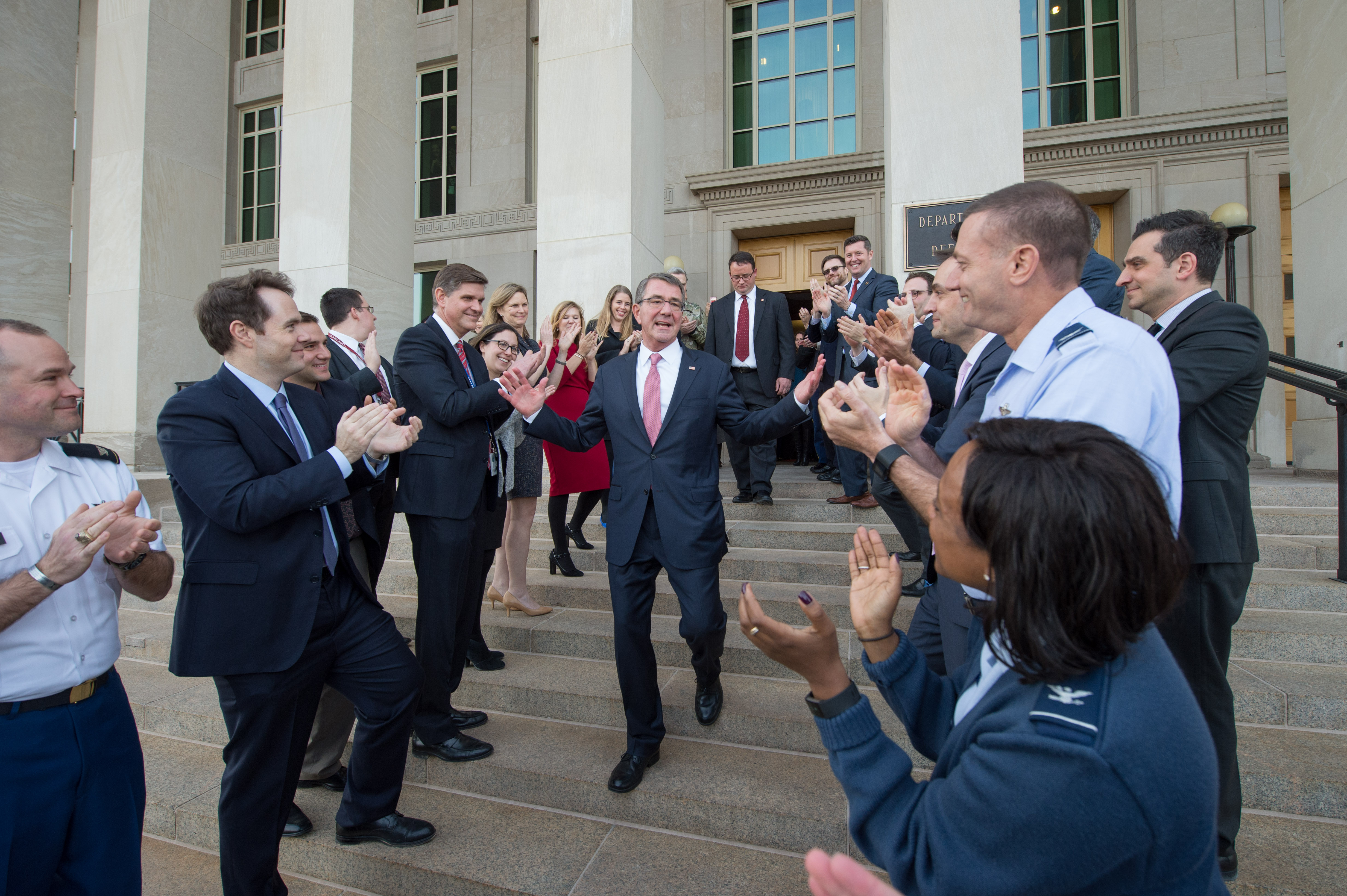 Secretary of Defense Ash Carter departs from the Pentagon on his last day in office Jan. 19, 2017, in Washington, D.C. (DOD photo by U.S. Air Force Staff Sgt. Jette Carr)